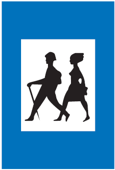 Diagram of road signs of Luxembourg